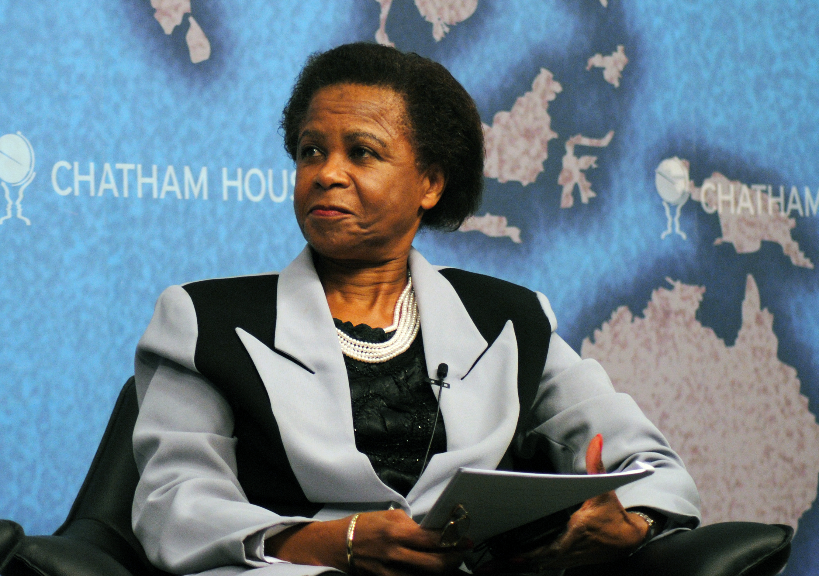 Mamphela Ramphele. Unlocking South Africa's Potential: The Challenge for New Political Parties, 28 May 2013 cht.hm/137Z0ei.